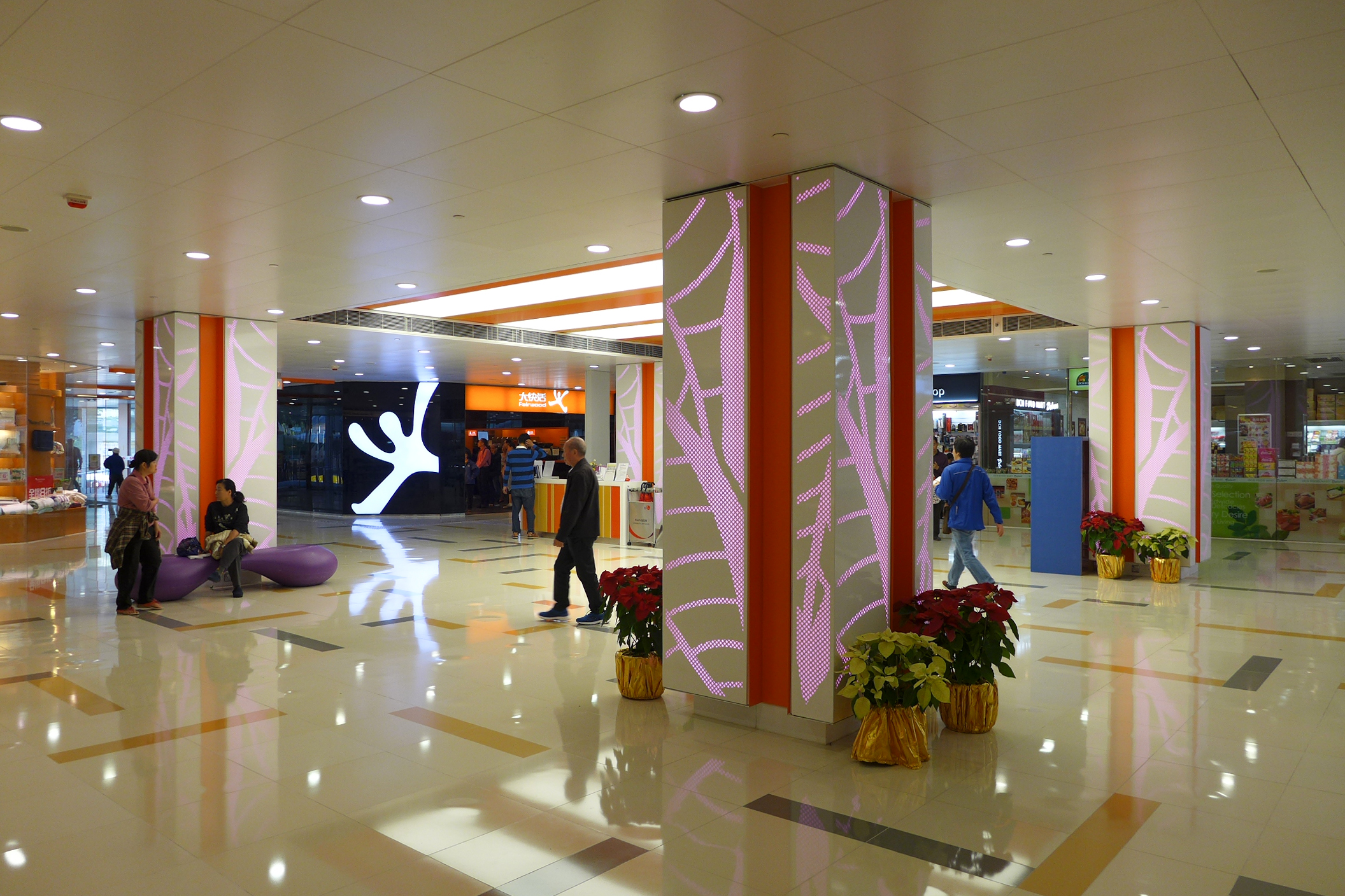 Fortune City One Plus Interior